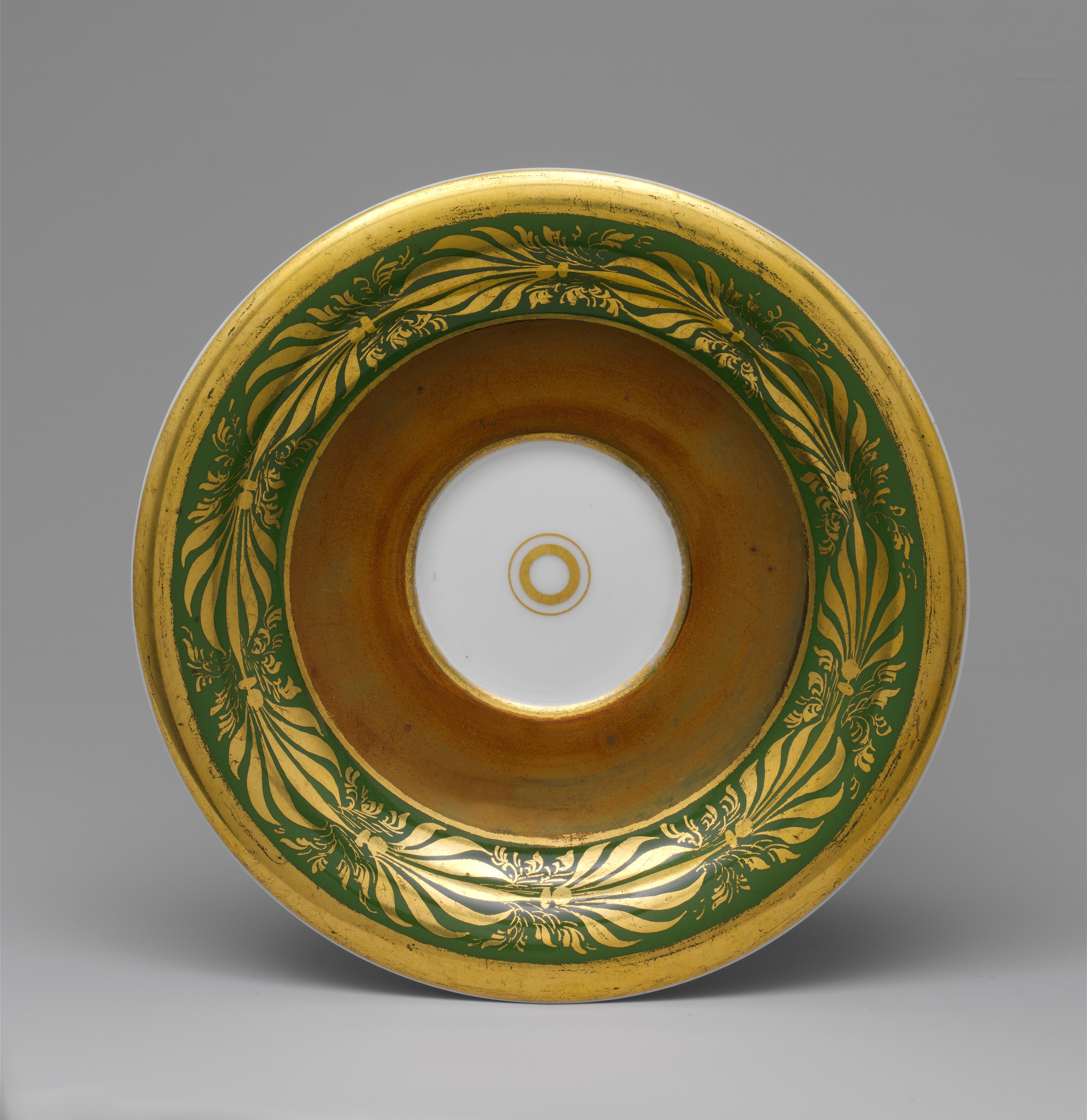 German; Cup and saucer; Ceramics